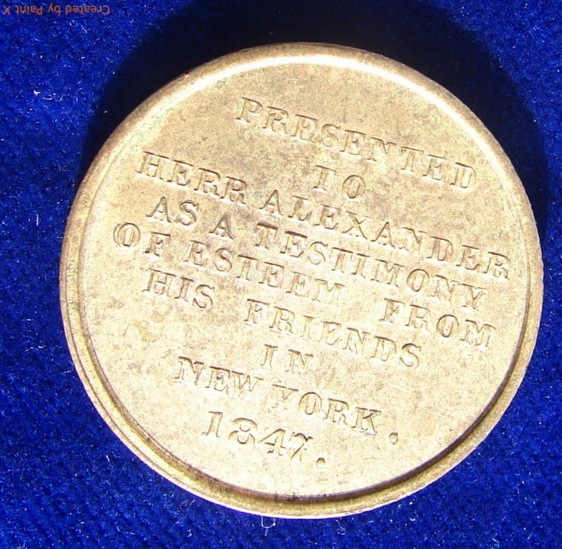 Gilt base metal medal d.= 29 mm. Heimbürger, Alexander, magician, 1819 Münster - 1909 Münster/Westfalen, Germany Farewell medallion for his departure from New York. Portrait r., curved above: "HERR ALEXANDER" / 9 lines: "PRESENTED TO HERR ALEXANDER AS A TESTIMONY OF ESTEEM FROM HIS FRIENDS IN NEW YORK 1847." ANA 1949.65.406; Rulau NY42. Medallist: C.C.W. (Charles Cushing Wright), Sculptor, 1796 Damariscotta, Maine - 1854 New York Condition: EXTREMELY FINE.